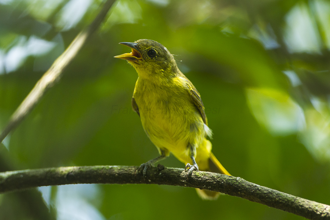 Yellow-backed Tanager - REGUA - Brazil_S4E2876